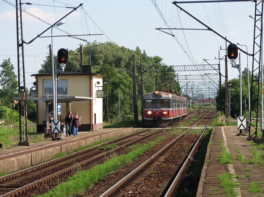 Train station in Rudyszwałd, Silesian voivodeship, Poland